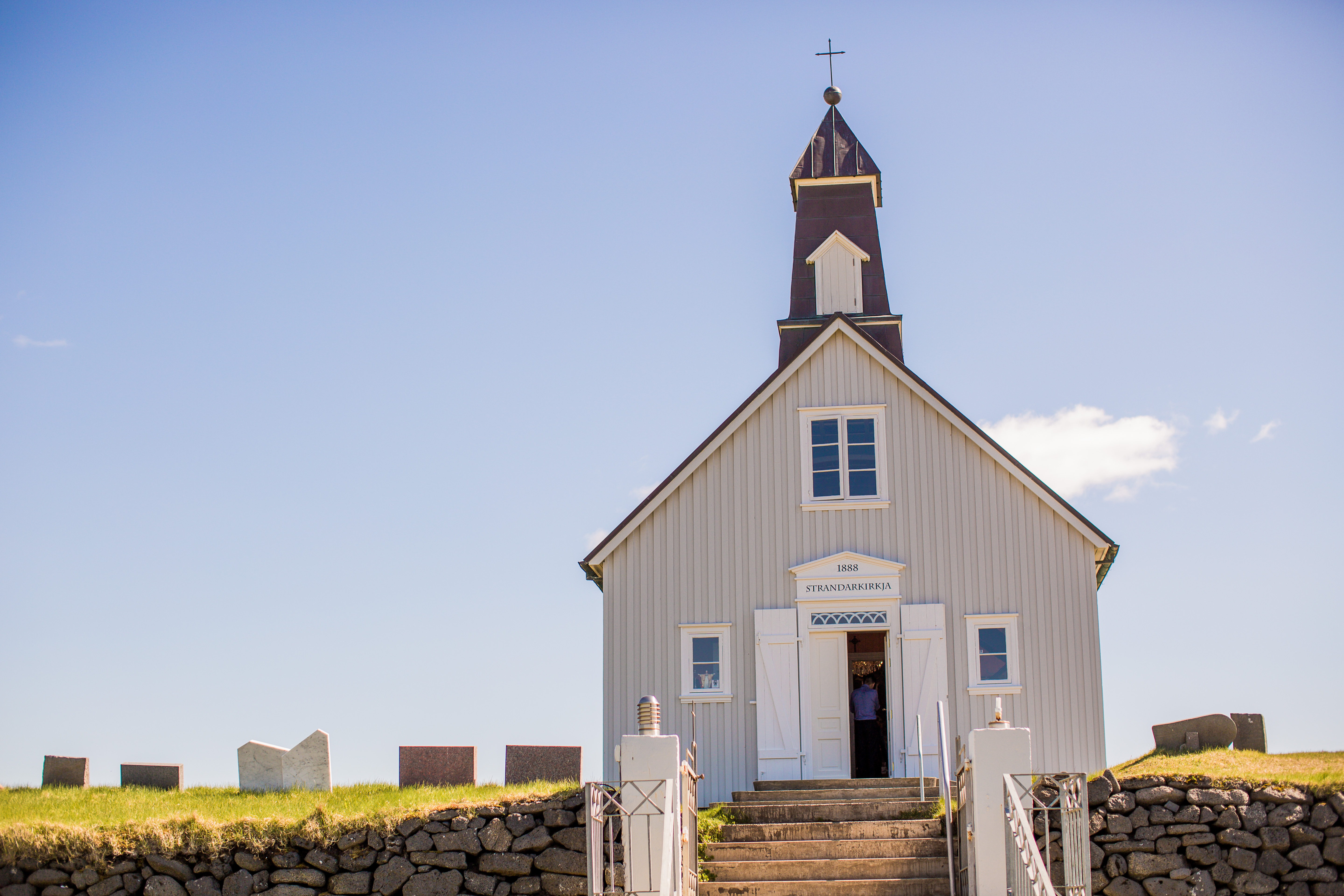 Front View of Standarkirkja